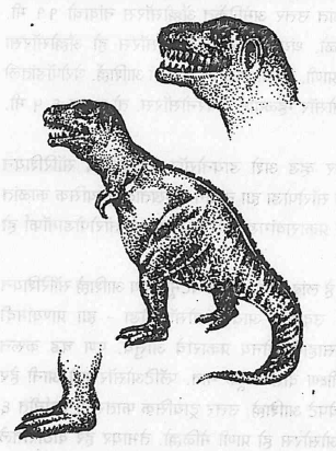 Dinosor